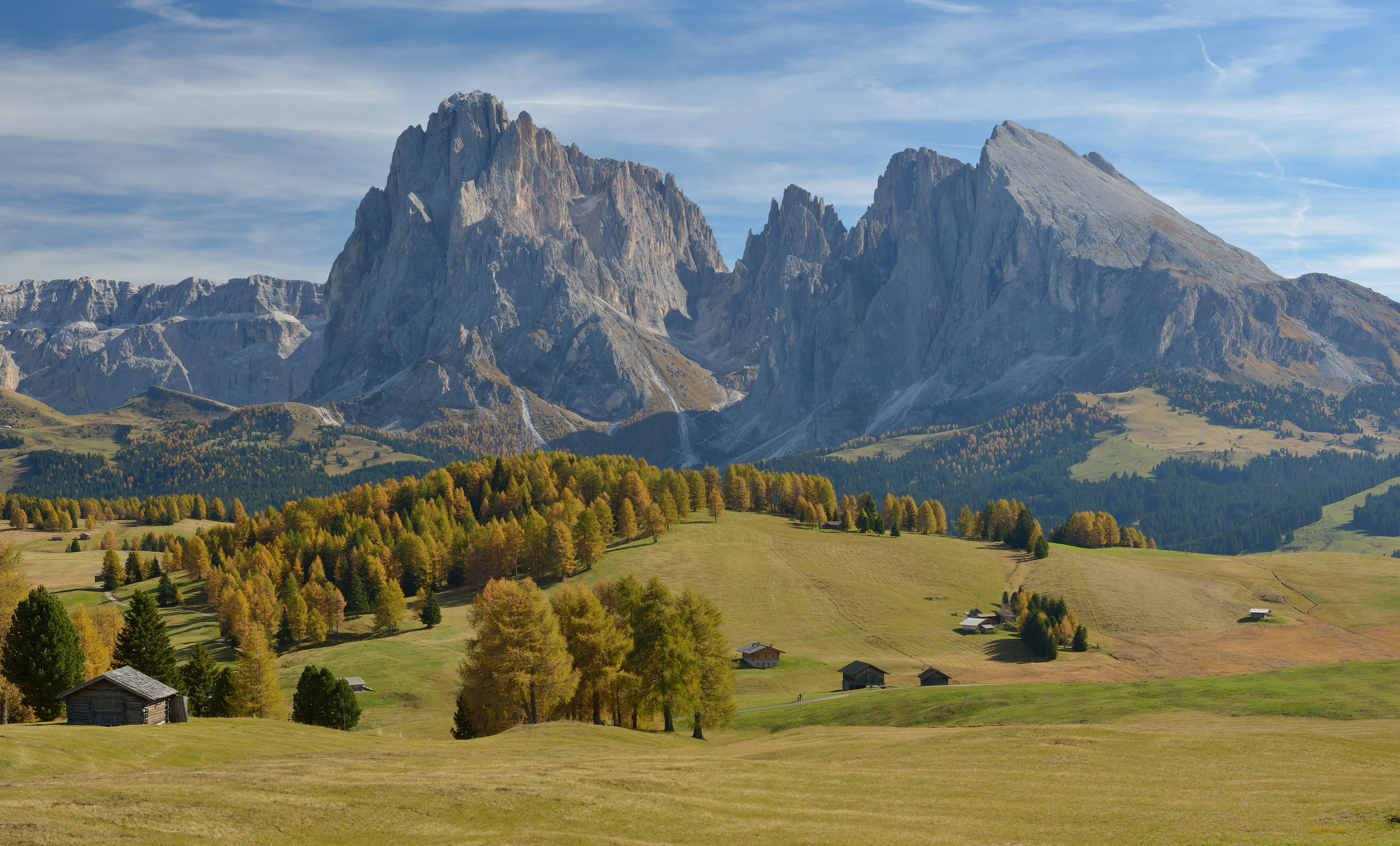 The Seiser Alm in South Tyrol, with the mountains of Langkofel group in the background